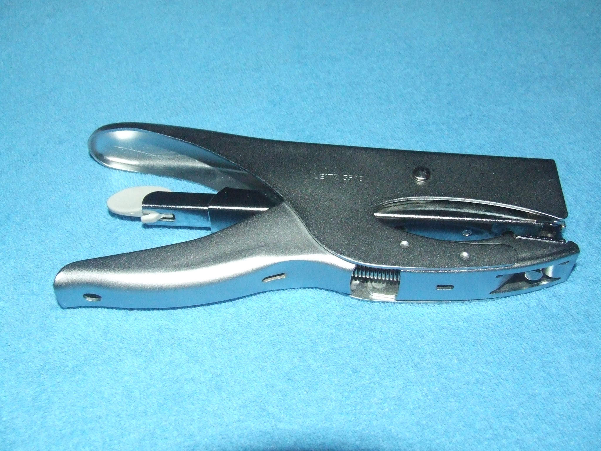 stapler